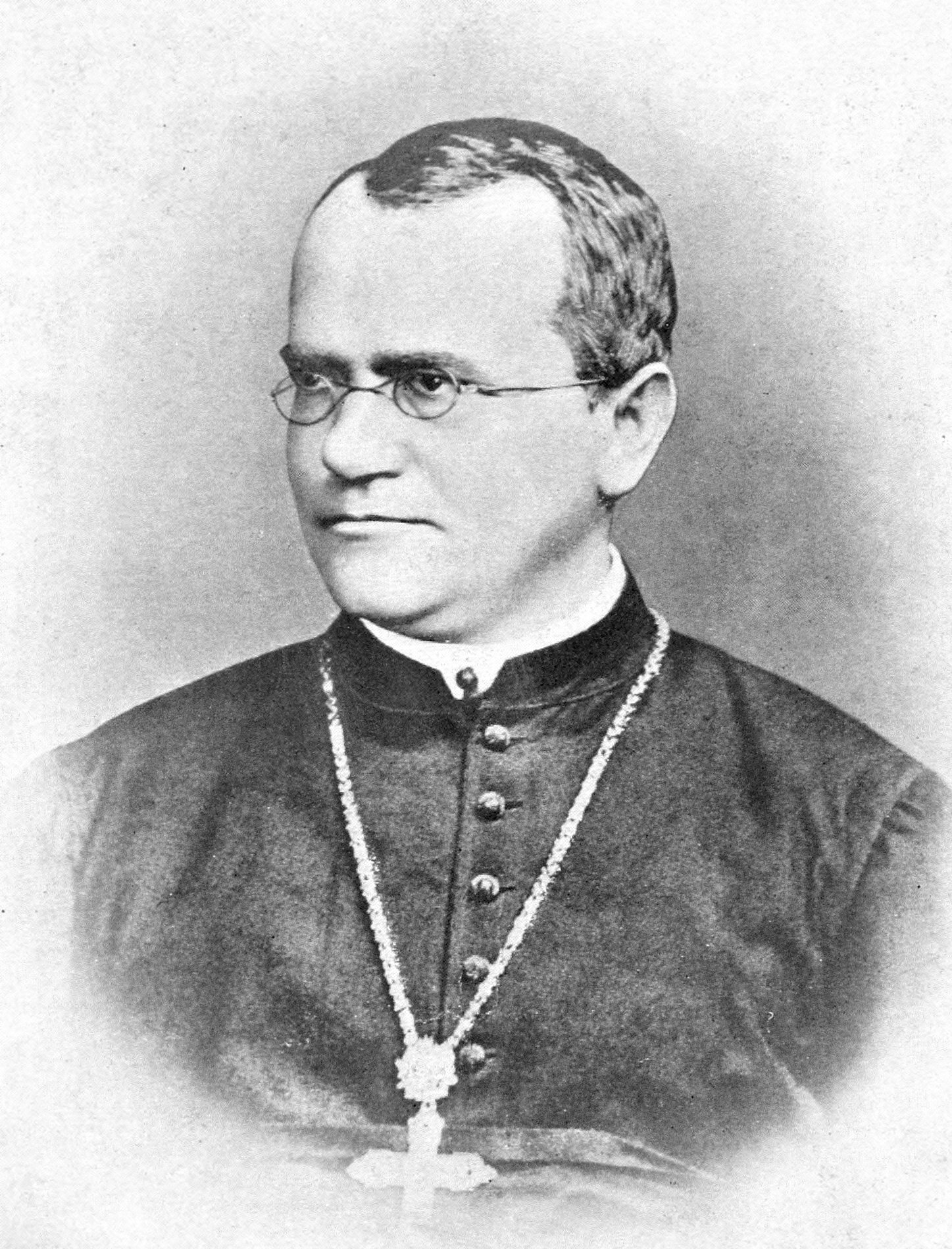 Scan of frontispiece from the book "Mendel's Principles of Heredity: A Defence." Scanned images for entire book available at